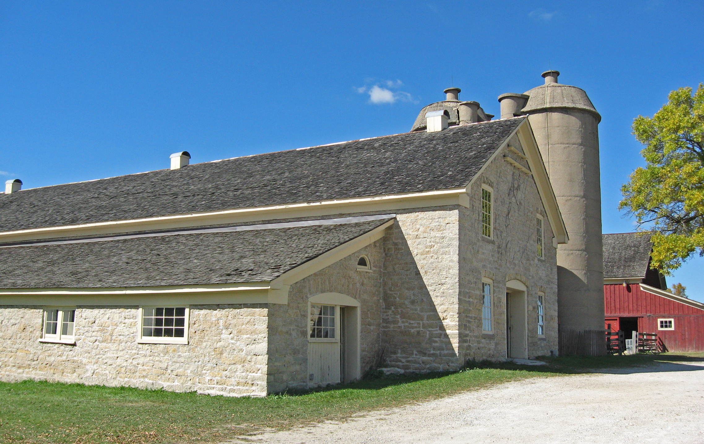 Historic farm of Werner Trimborn in Greendale Wisconsin. This barn was built in 1858 with massive limestone walls.